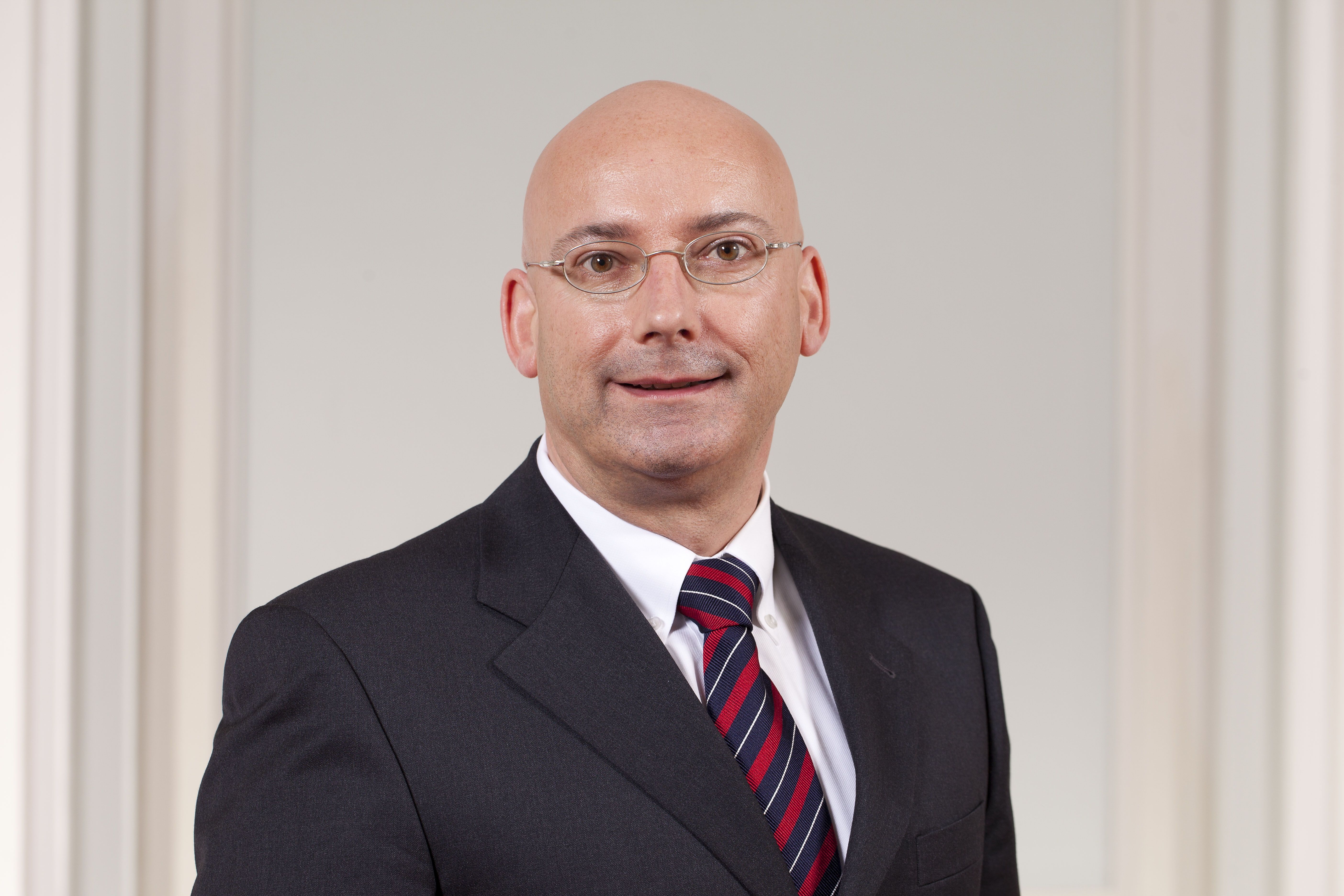 Mauro Pedrazzini is a minister of the government of the principality of Liechtenstein.